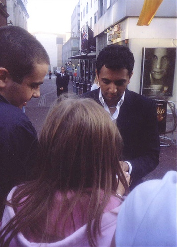 M. Night Shyamalan for a London Premiere (the Village)M. Night Shyamalan, "The Village" UK Premiere, Odeon, London, 8/10/2004